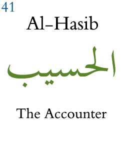 The name of Allah Al-Hasib